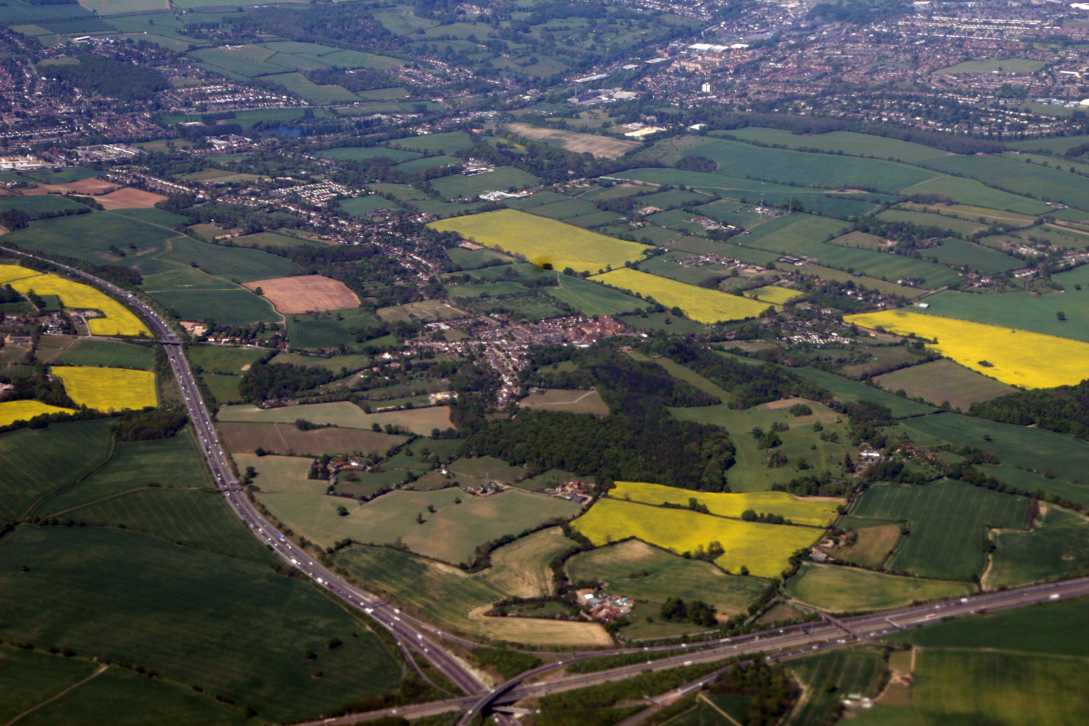 M25/M1 intersection, with Hemel Hempstead in the background (top-right corner), to the southwest.